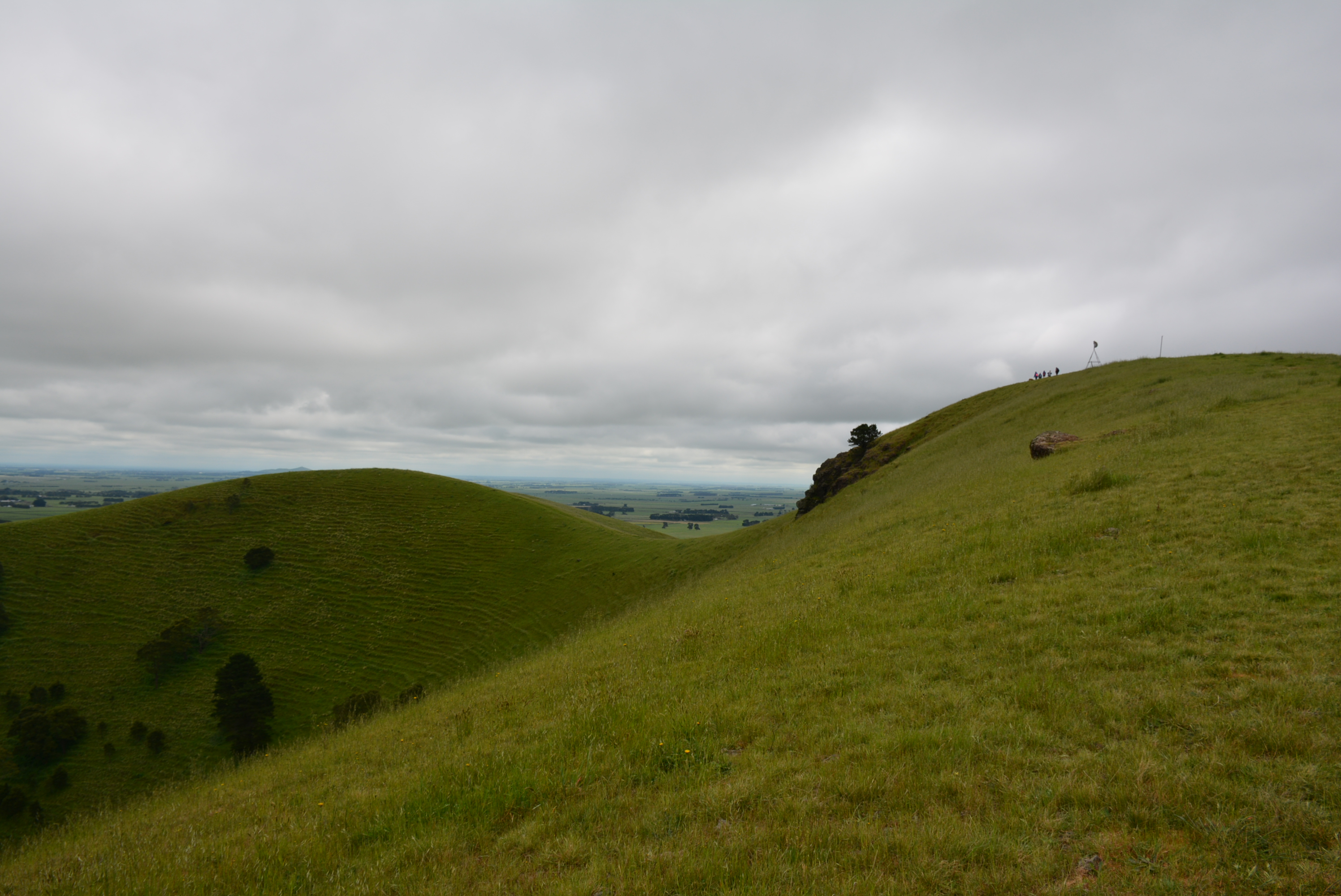 A view of the crater and summit of the dormant volcano, Mount Noorat, in Victoria, Australia. A small group of walkers can be seen on the summit.